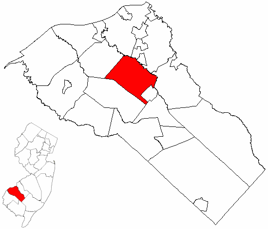 Map of Gloucester County highlighting Mantua Township